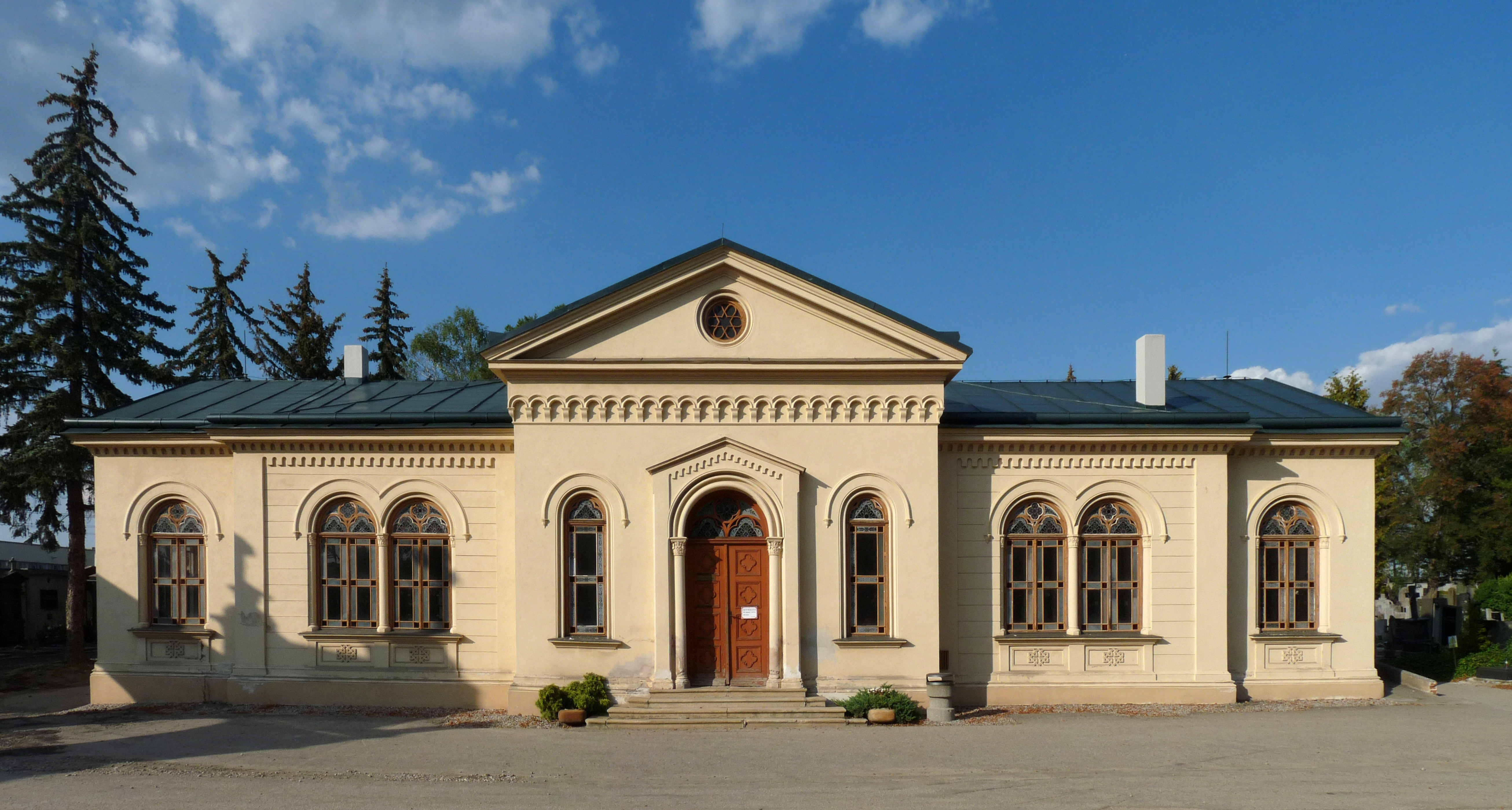 Columbarium in the municipal cemetery in Pražská Street, České Budějovice, South Bohemian Region, Czech Republic